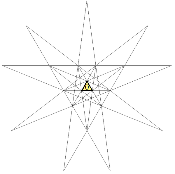 Facets of zeroth stellation of icosahedron